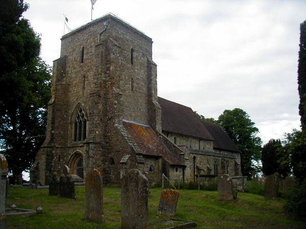 St Nicholas Church, Sandhurst.